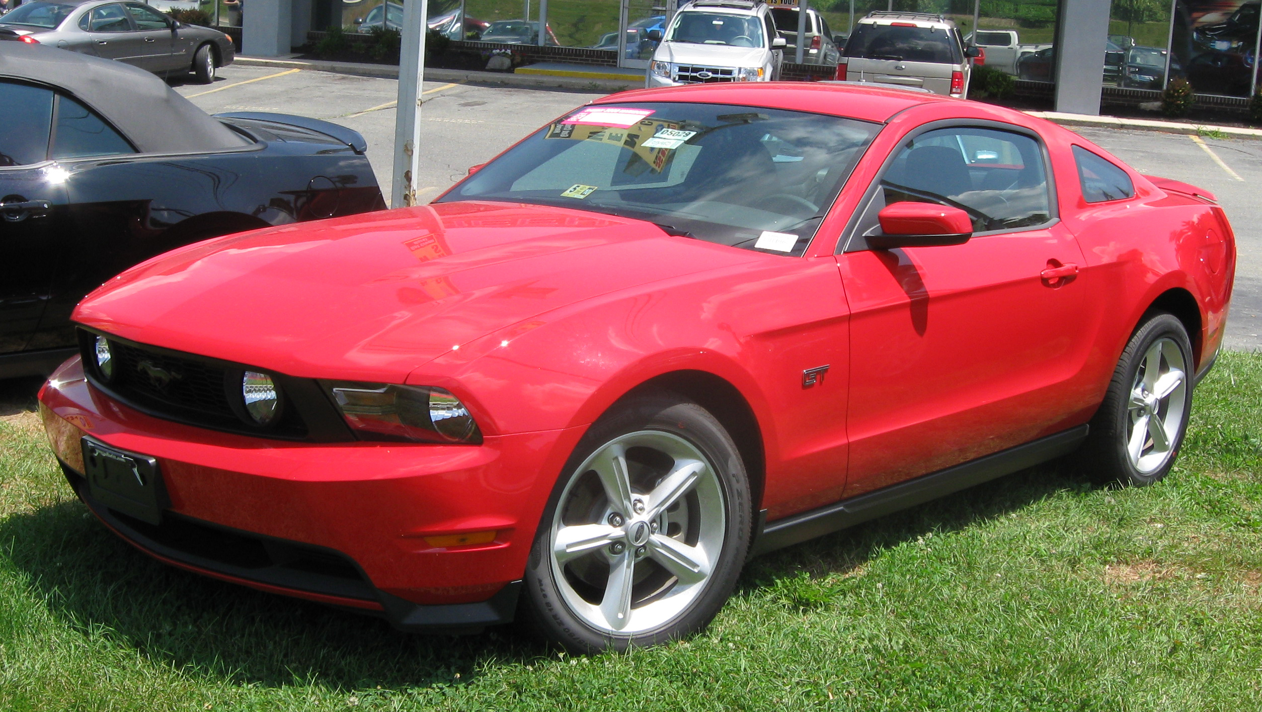 2010 Ford Mustang GT coupe photographed in Gaithersburg, Maryland, USA.